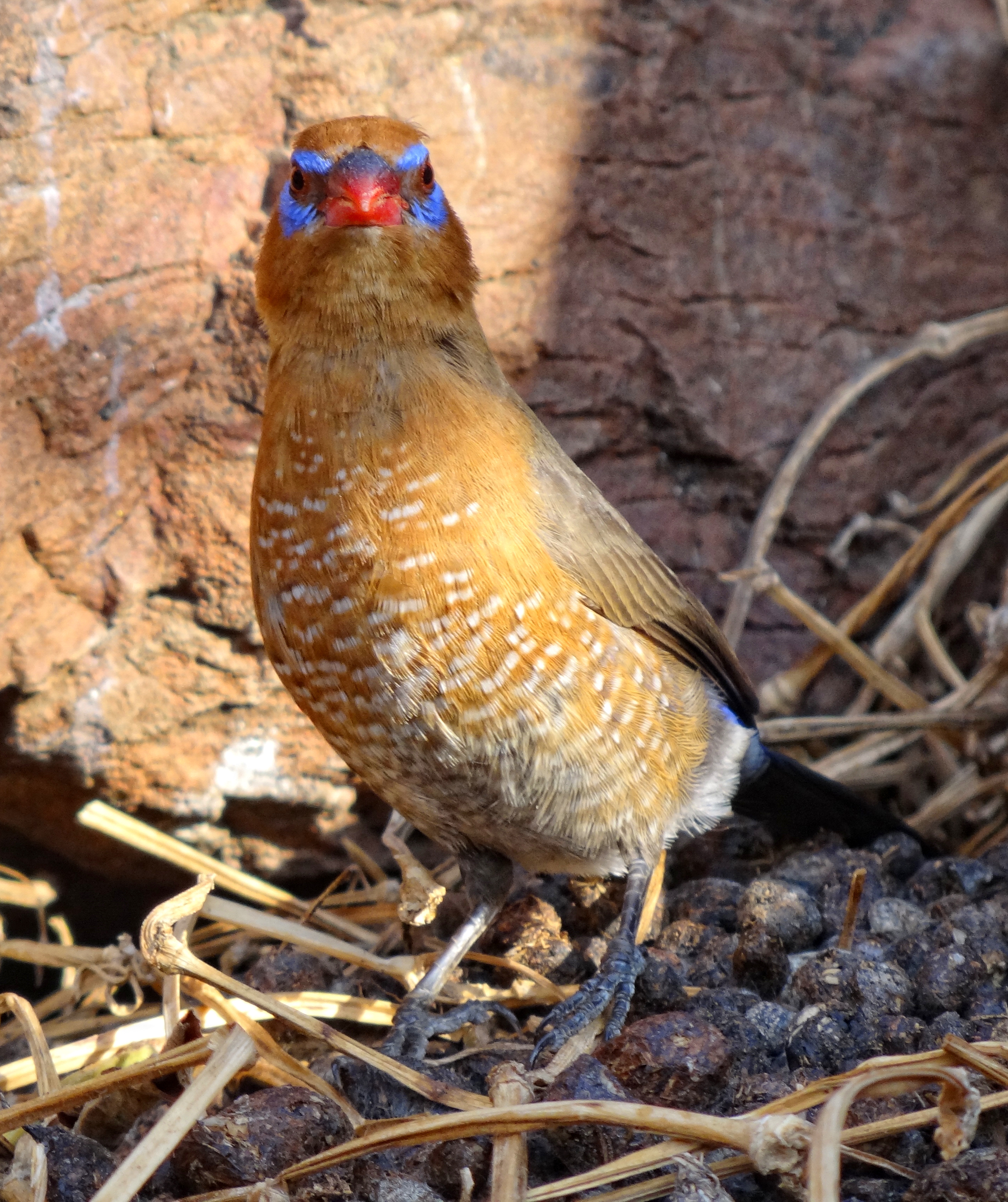 A female Purple Grenadier photographed in the wild at the Serengeti Visitor's Centre in Serengeti National Park, Tanzania.